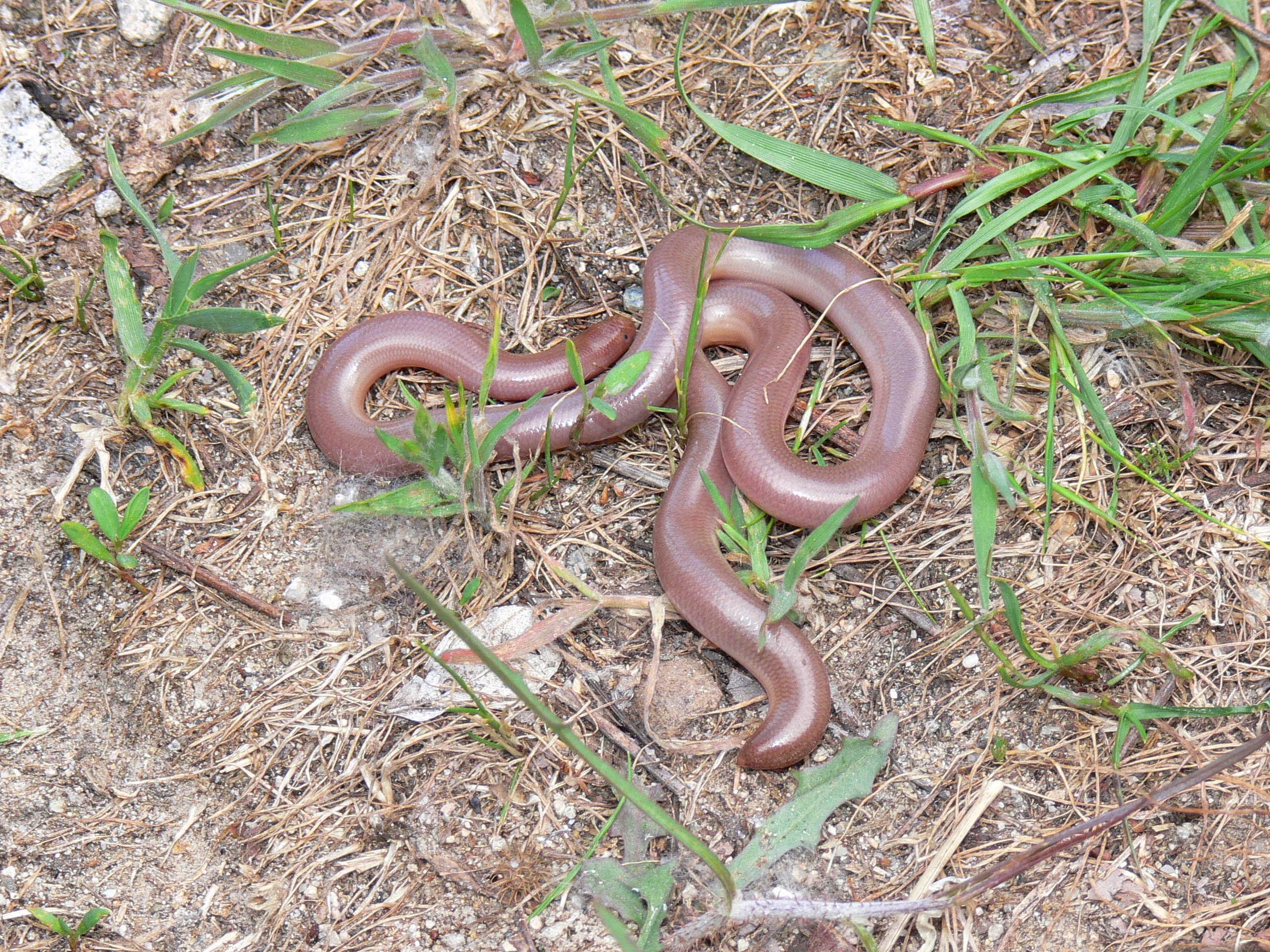 Typhlops vermicularis